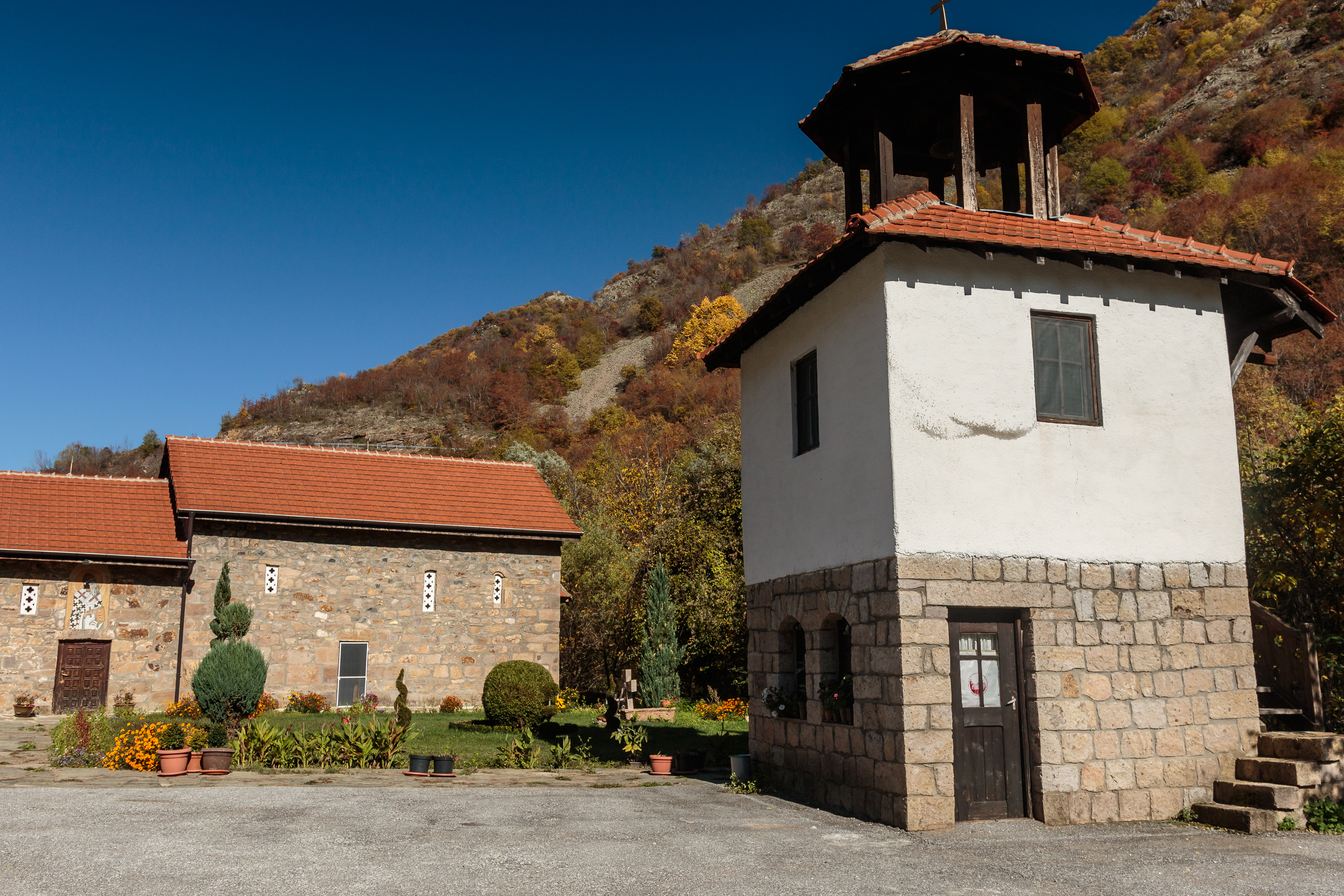 Monastery church of St. Spiridon (left) with the bell tower (right), Zletovo-Probištip Region, Macedonia